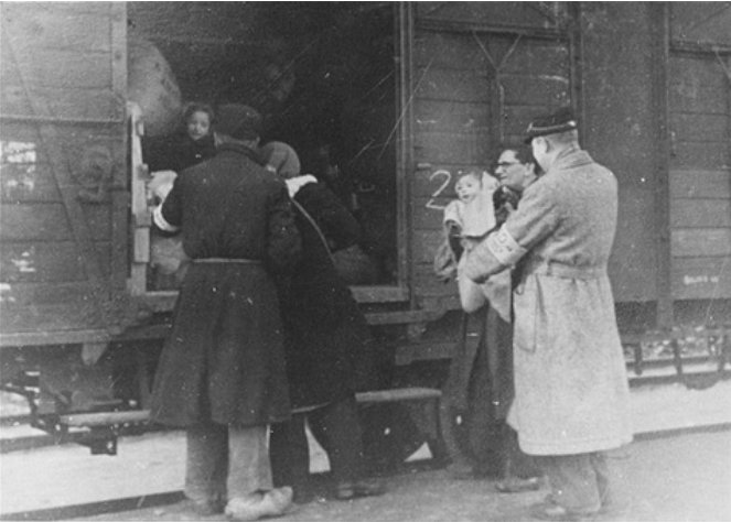 Deportation from the Westerbork transit camp. The Netherlands, 1944–1945.